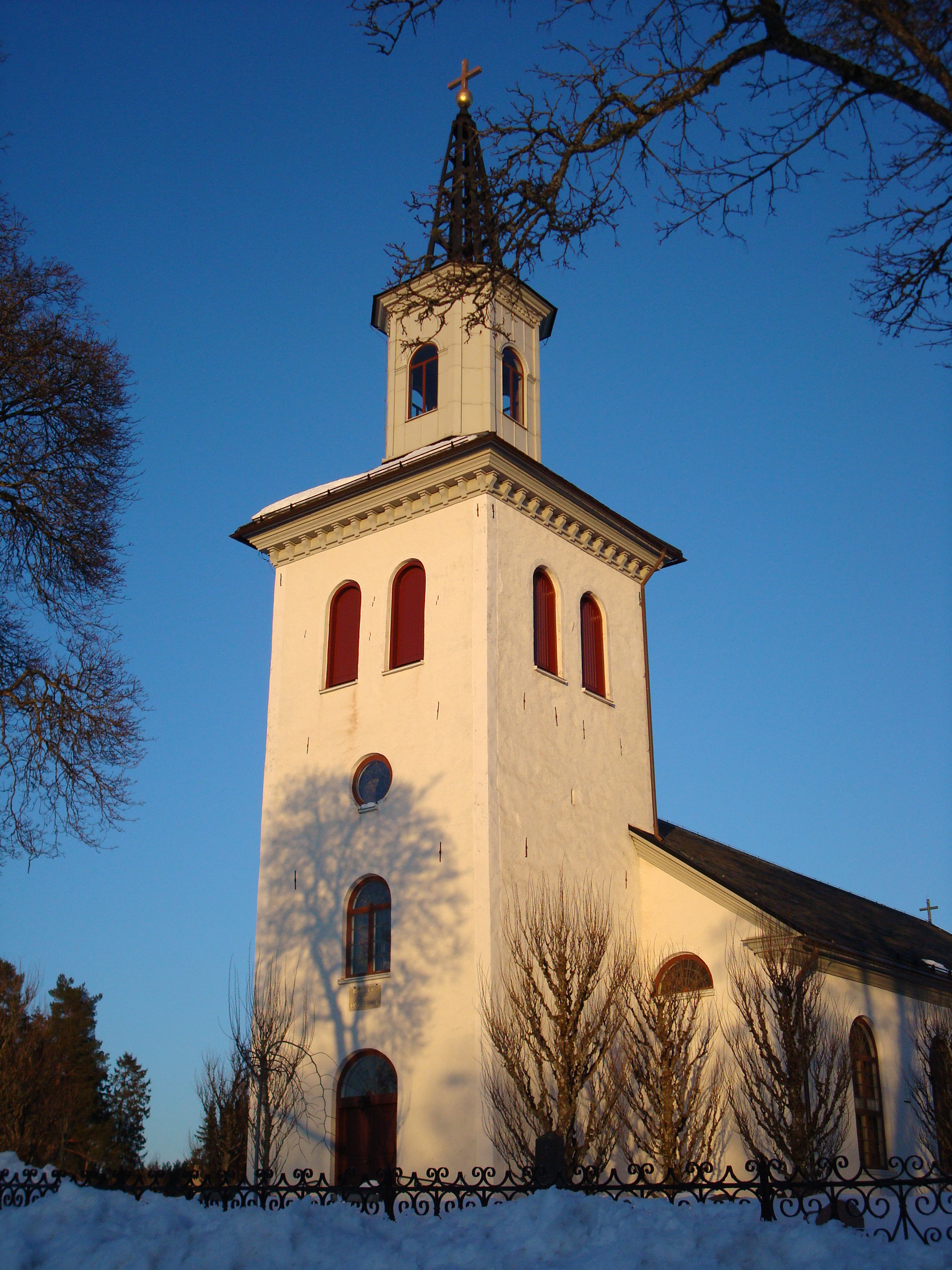 The churh of Månsarp, Jönköping, Sweden.